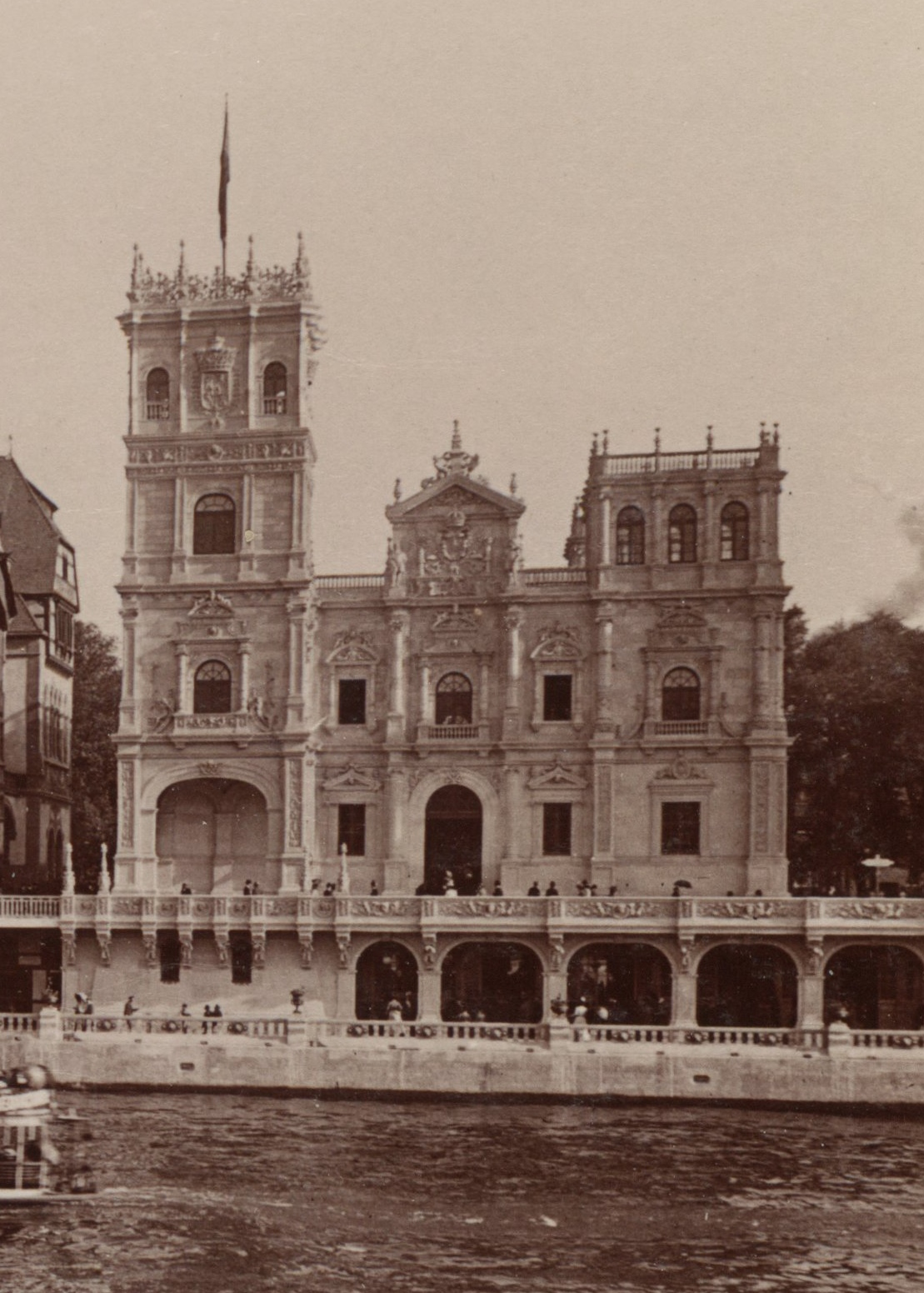 Foreign pavilions at the 1900 Paris World Fair. The "Rue des nations" (Foreign Nations street) was located on the left bank of the Seine river, between the Eiffel Tower and the Esplanade des Invalides. It housed most of the foreign pavilions at the Fair (some were also located in the Trocadéro gardens, on the other side of the river, and in front of the Eiffel Tower). The buildings on that image are (from left to right): the British pavilion, the Belgian pavilion, the Norvegian pavilion, the German pavilion, and the Spanish pavilion.